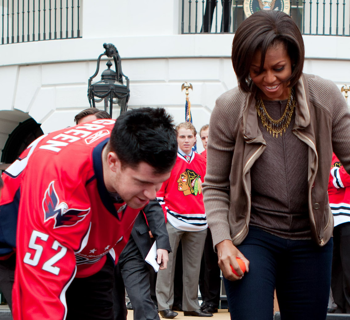 First Lady Michelle Obama participates in a "Let's Move!" and NHL partnership event with Chicago Blackhawks and Washington Capitals players on the South Lawn of the White House, March 11, 2011. (Official White House Photo by Samantha Appleton)